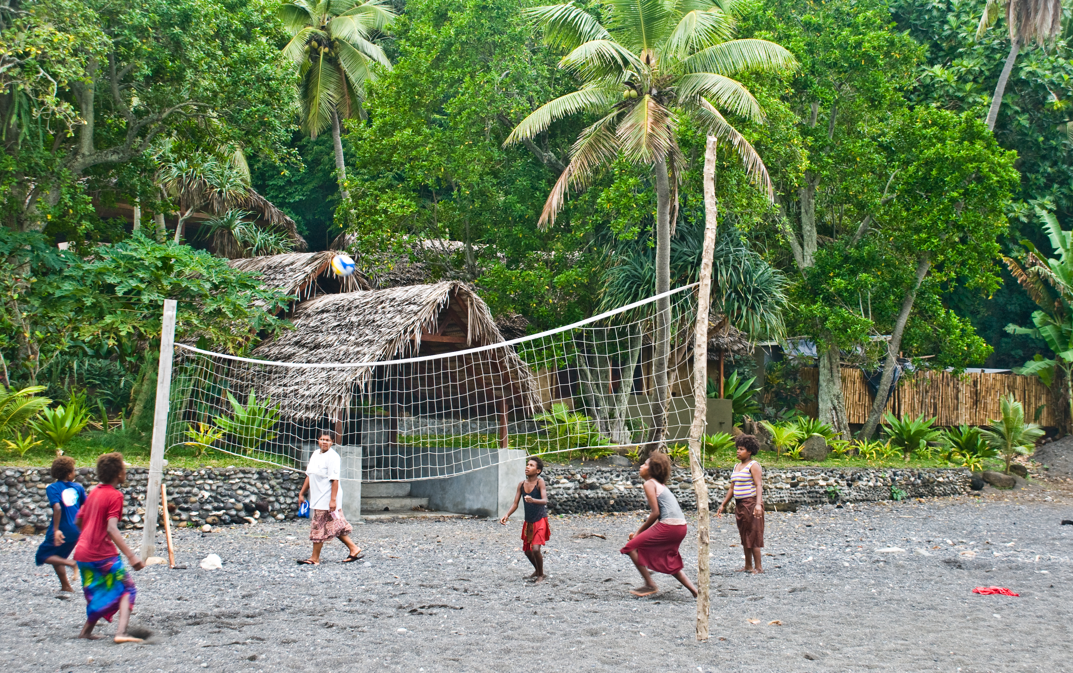 Beach volleyball, Tanna, Vanuatu, 11 June 2009